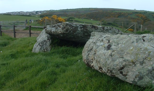 St. Elvis Burial Chamber. This double chambered tomb has seen better days. One of the side stones has even been used as a gate post at some point - the metal work is still there - possibly by a former inhabitant of nearby St. Elvis Farm SM8124